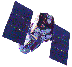 NASA image of Extreme Ultraviolet Explorer spacecraft.